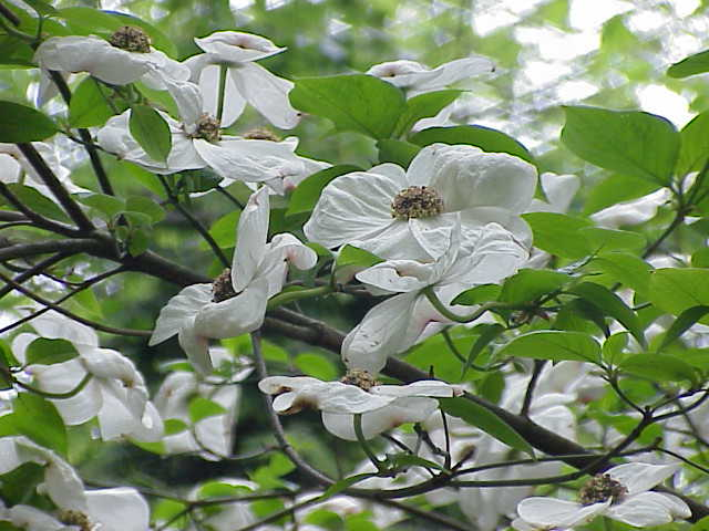 Species: Cornus nuttallii Family: Cornaceae Image No. 4